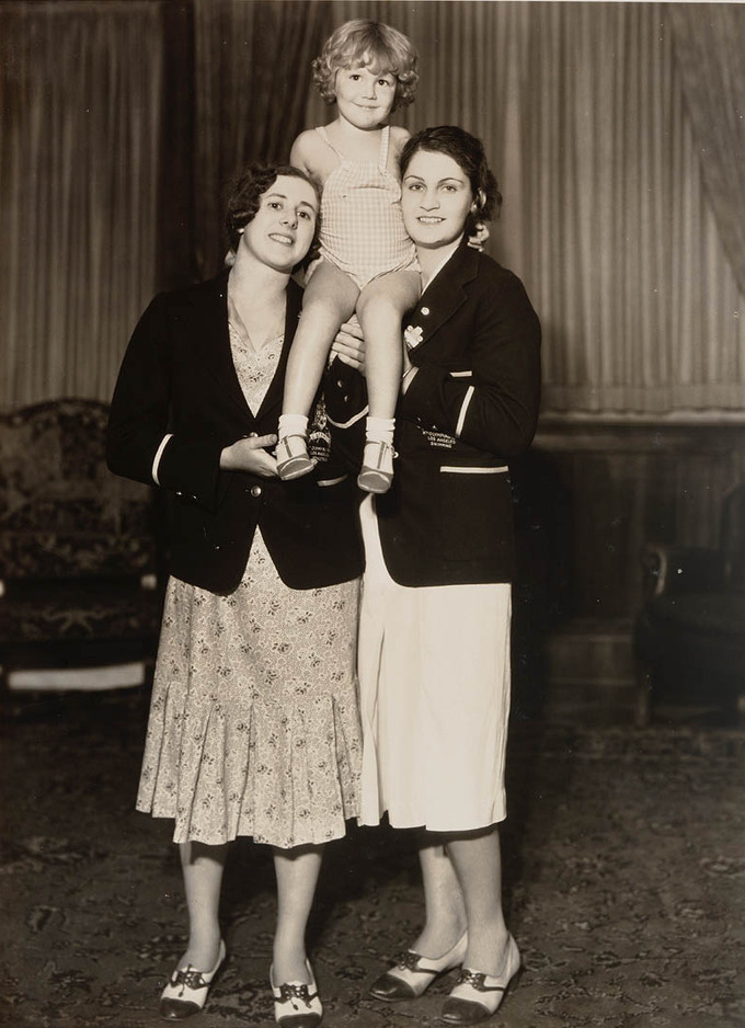 Note: Swimmer Clare Dennis won her gold medal at the Los Angeles Olympic Games, but sprinter Eileen Wearne was not in good form. (She went on to win gold at the Sesquicentenary Empire Games, Sydney, 1938.) The Our Gang show was still being shown on television in the 1950's. Format: Silver gelatin photoprint From the collections of the Mitchell Library, State Library of New South Wales Information about photographic collections of the State Library of New South Wales .au/search/SimpleSearch.aspx Persistent url: .au/item/itemDetailPaged.aspx?itemID=430692